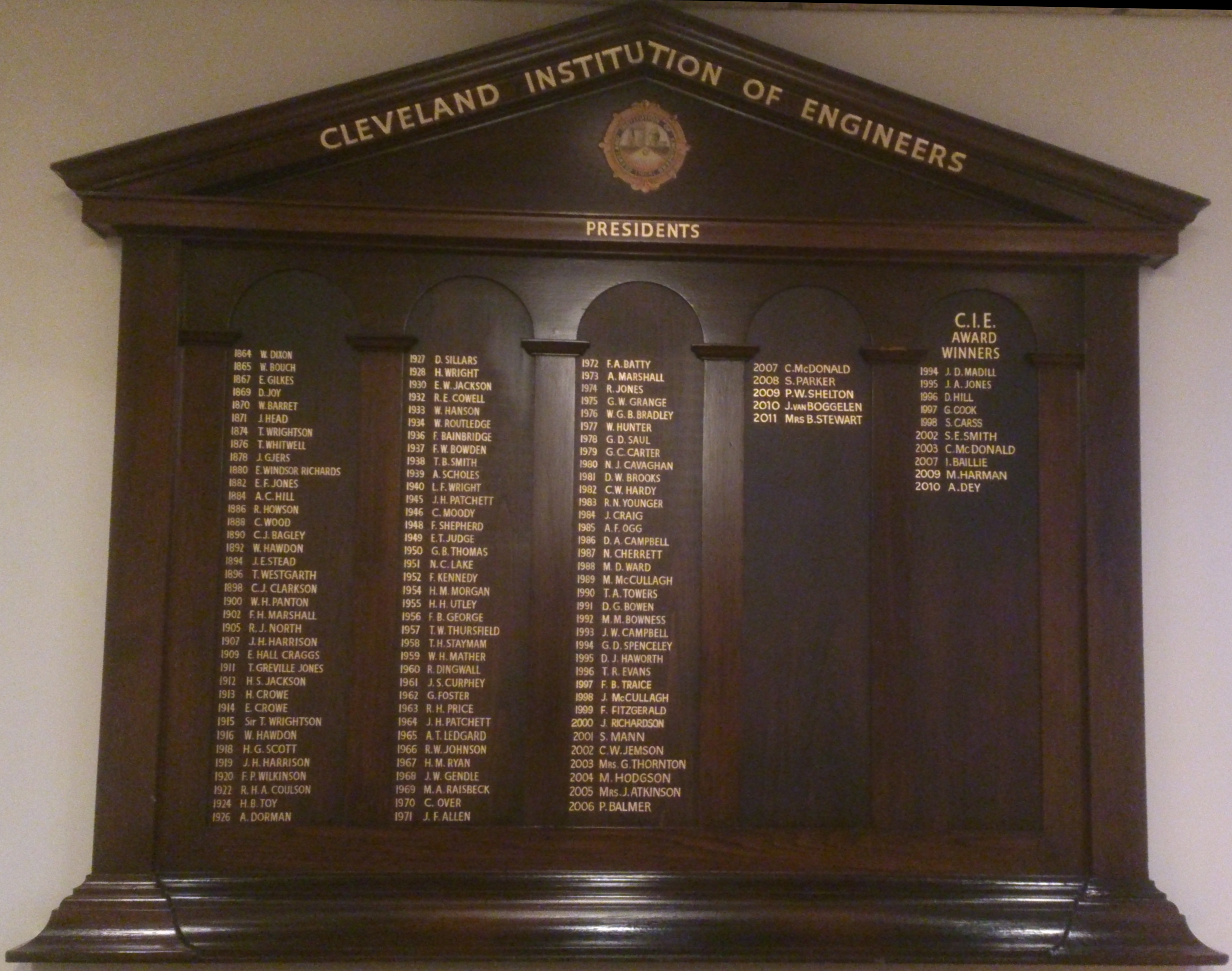 Presidents board of the Cleveland Institution of Engineers, showing all the presidents and annual award winners since the founding of the CIE.